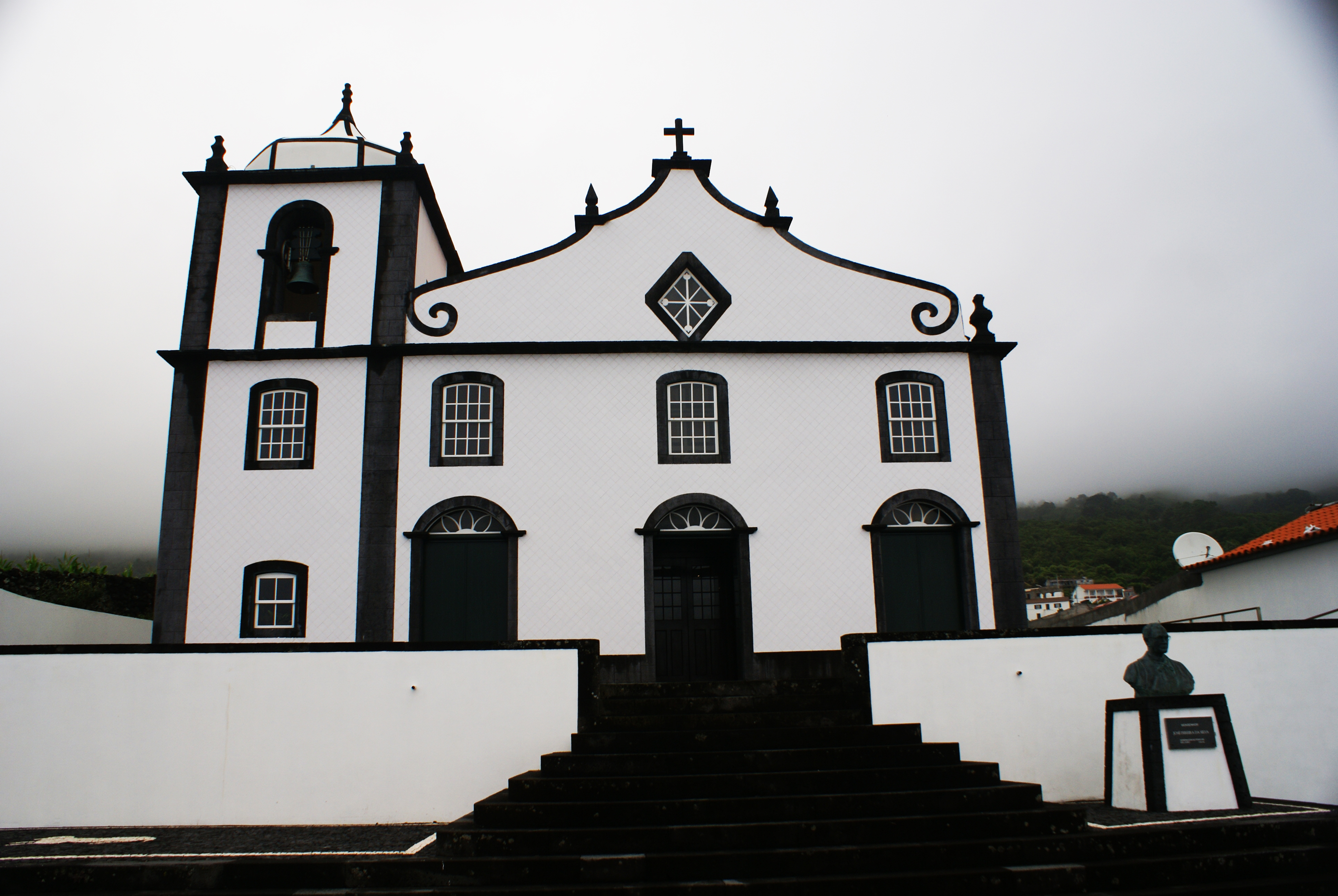 The front façade of the Church of São João Baptista, São João, Lajes do Pico, Pico (Azores), Portugal